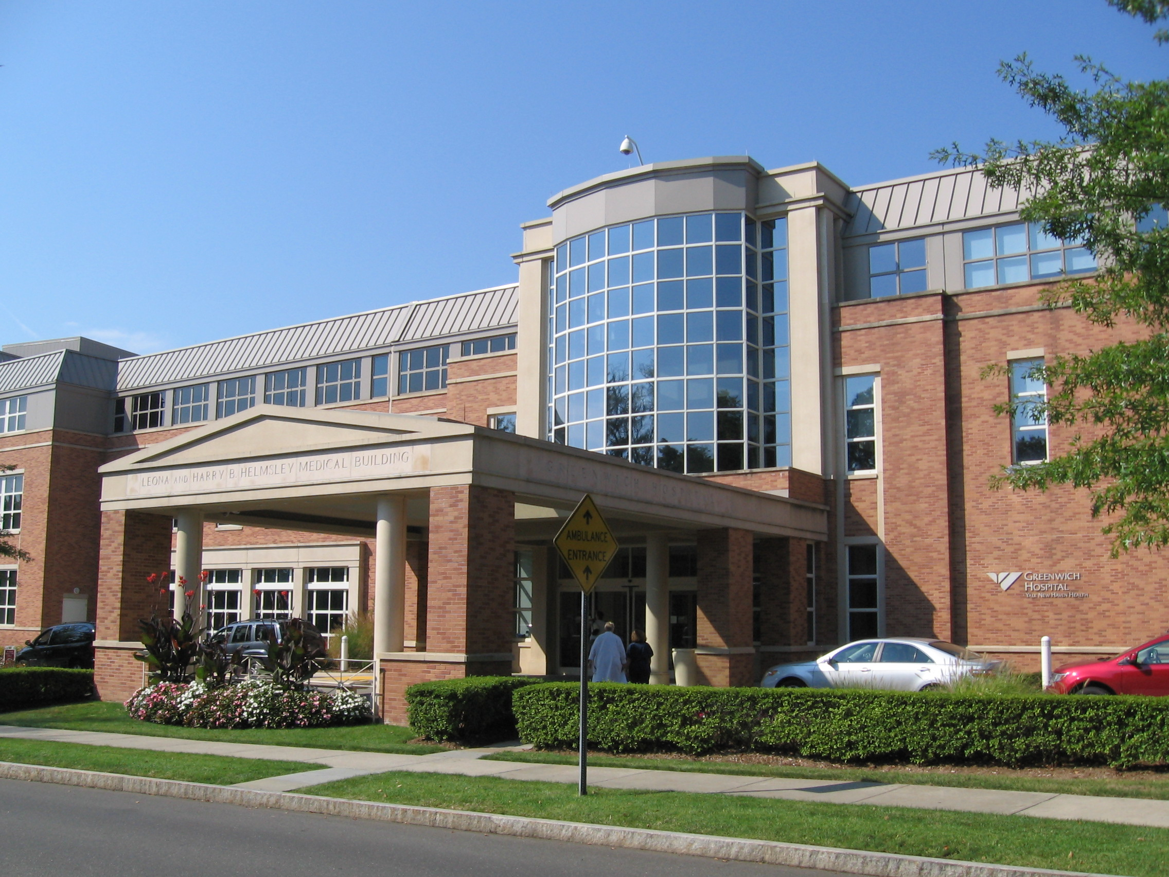 Front entrance, Greenwich Hospital in Greenwich, Connecticut. Emblazoned across the front of the covered drive are the words "Leona and Harry B. Helmsley Medical Building"